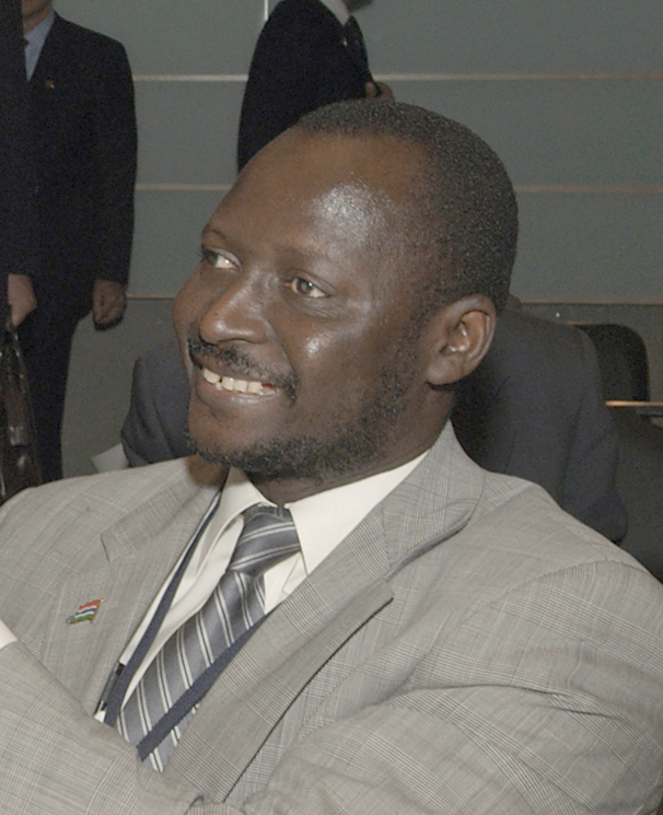 Famara Jatta, Finance and Economic Affairs Minister of The Gambia ahead of the Developments Committee meeting, IMF Annual Meeting 2002.